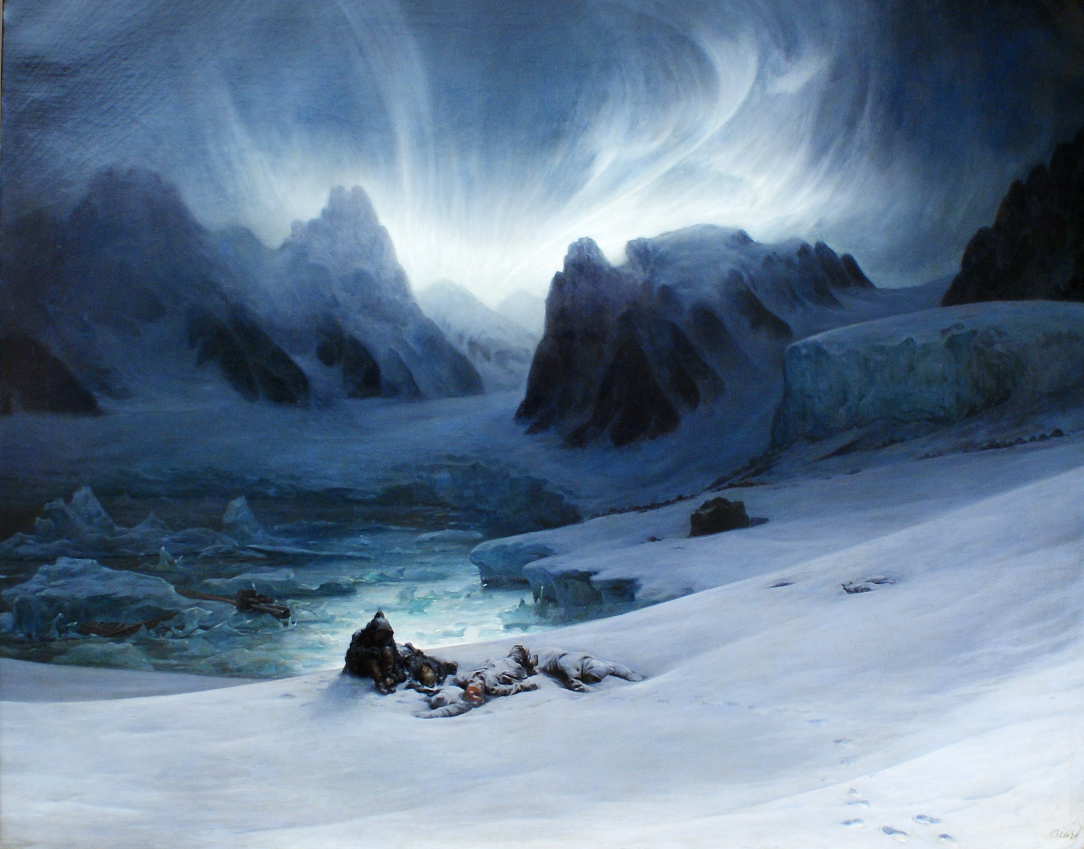 A photograph taken by King of François-Auguste Biard's painting, Magdalena Bay. Photo was taken at the Louvre in Spring 2010. Frame is cropped away.